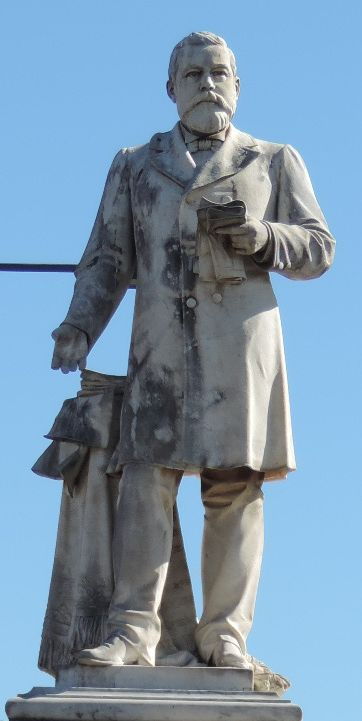 Thomas Joseph Byrnes Monument, Warwick (closeup), 2015